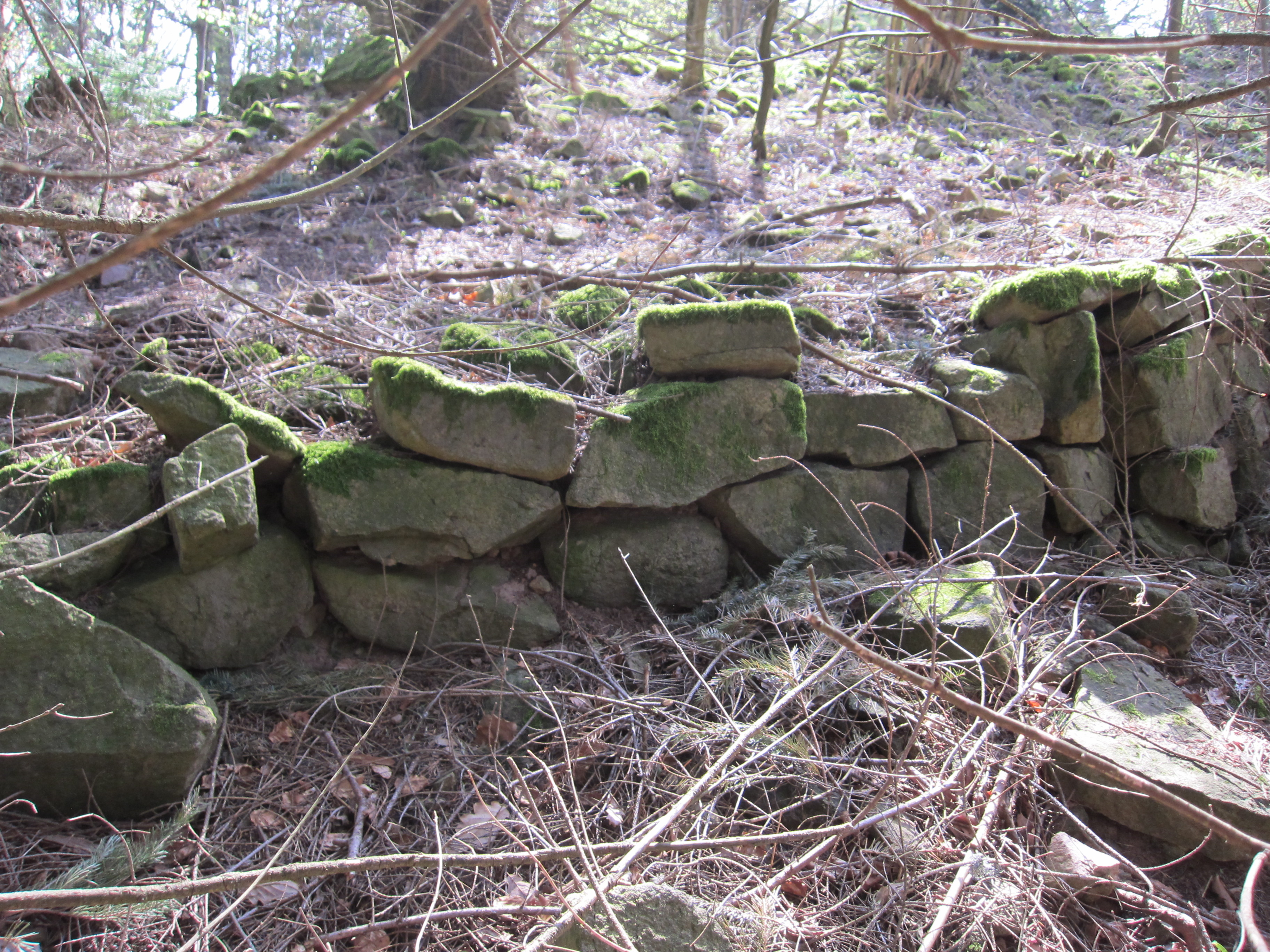 Rödelsburg, dry-stone wall remains in the centre of the castle area (looking southeastwards) – literary sources state that there are no walls